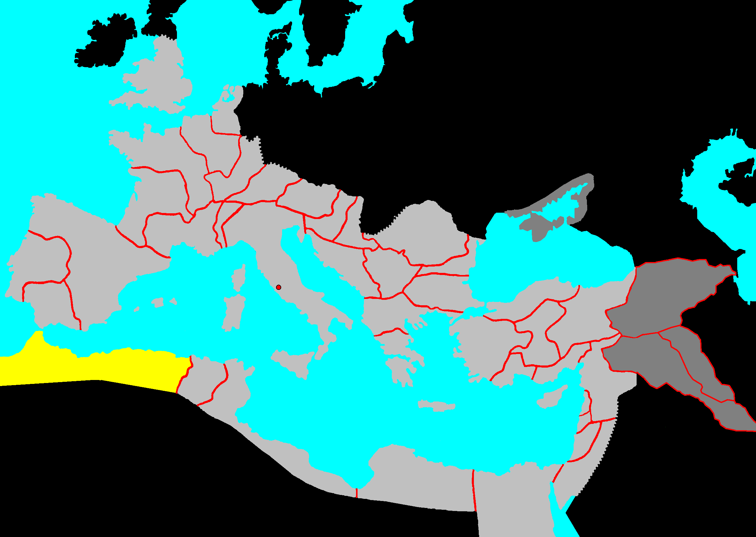 Description: provinces of the Roman Empire (Imperium Romanum) Source: own work Date: December 2005 Author: --Immanuel Giel 12:53, 13 December 2005 (UTC) Other versions: none